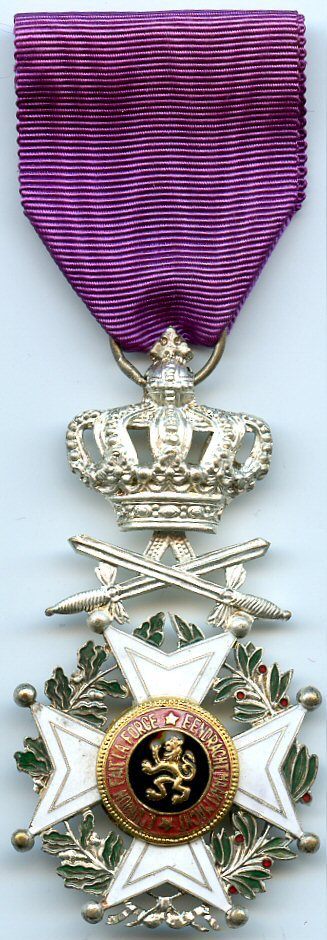 Military Knight of the Order of Leopold (Belgium)